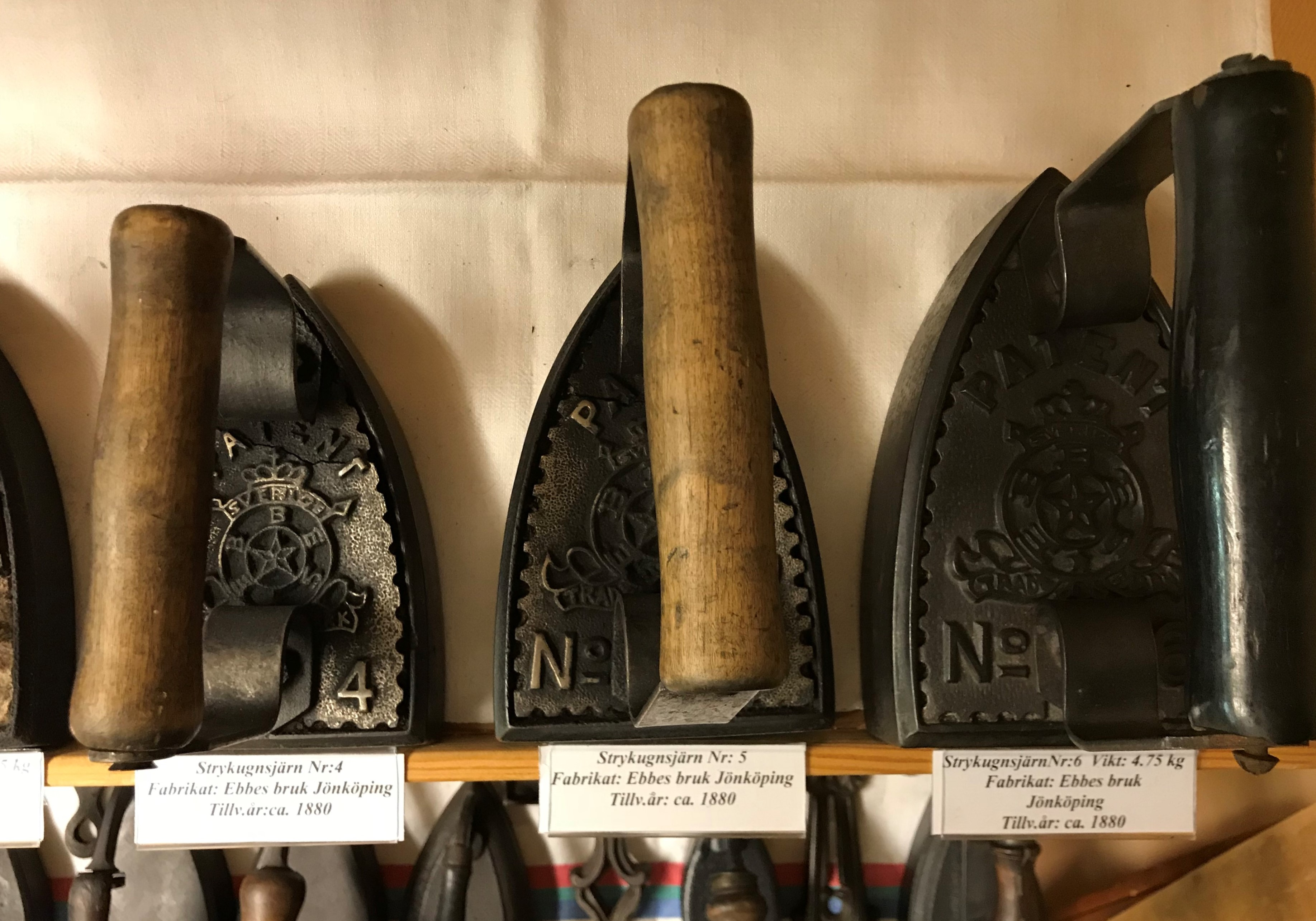 Strykjärnsmuseum, Iron museum, in Malmköping, Sweden, August 2, 2019